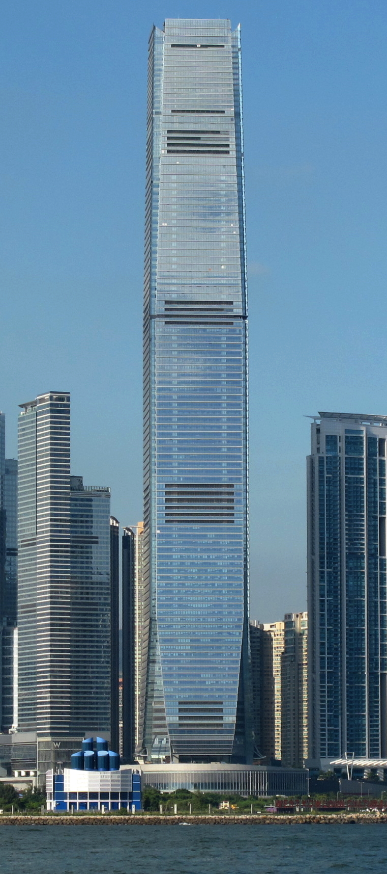 International Commerce Centre 環球貿易廣場